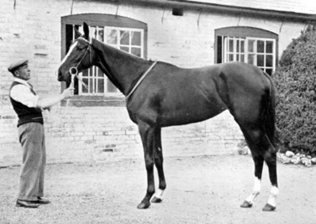 Photograph of British racehorse Rockfel. Unknown author. ca 1938. Horse died in 1941.